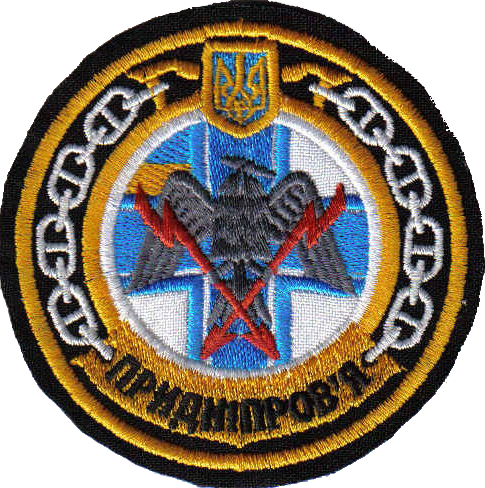 U155 Prydniprovia rocket cutter of Ukrainian Navy